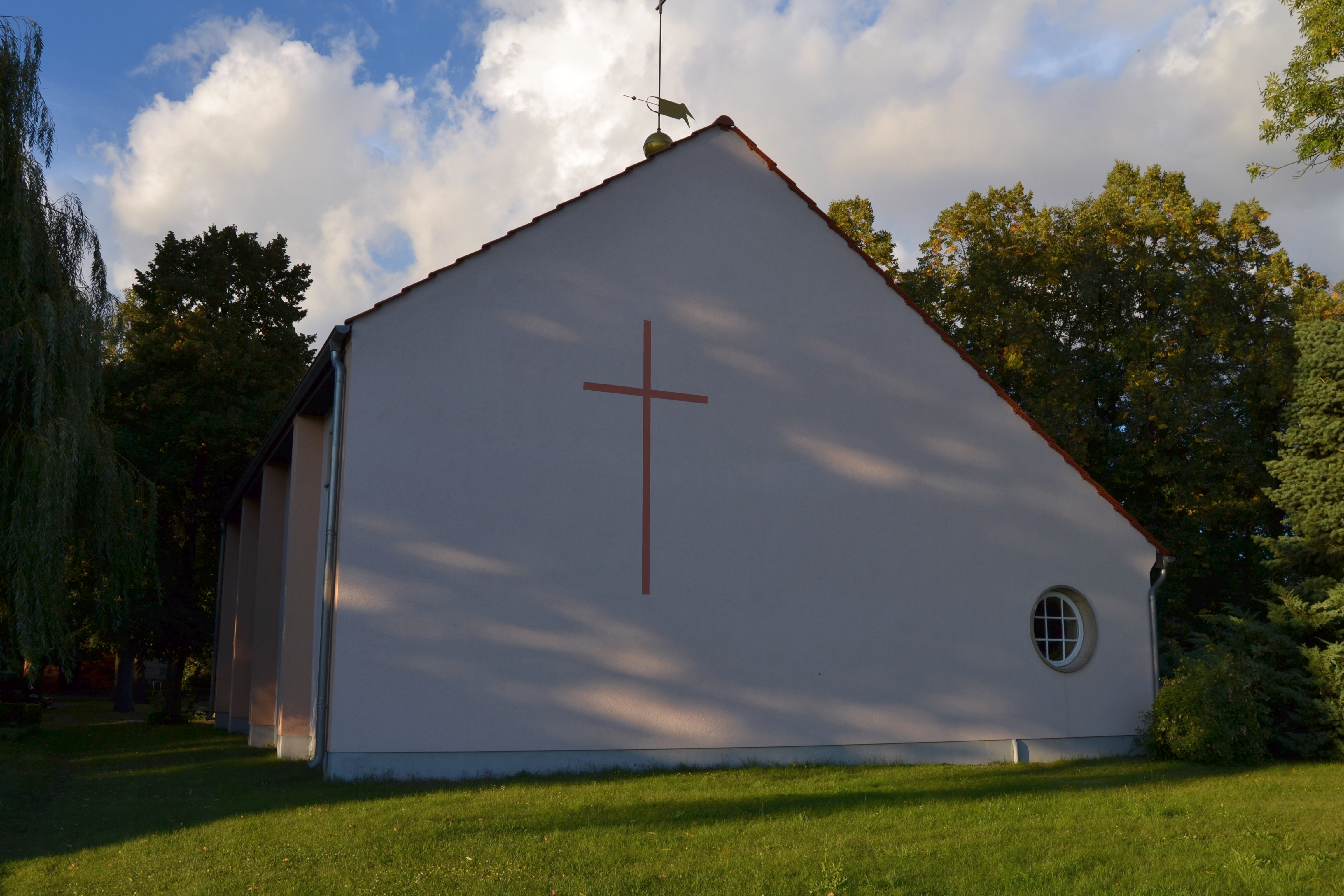 Village Church of Gorgast